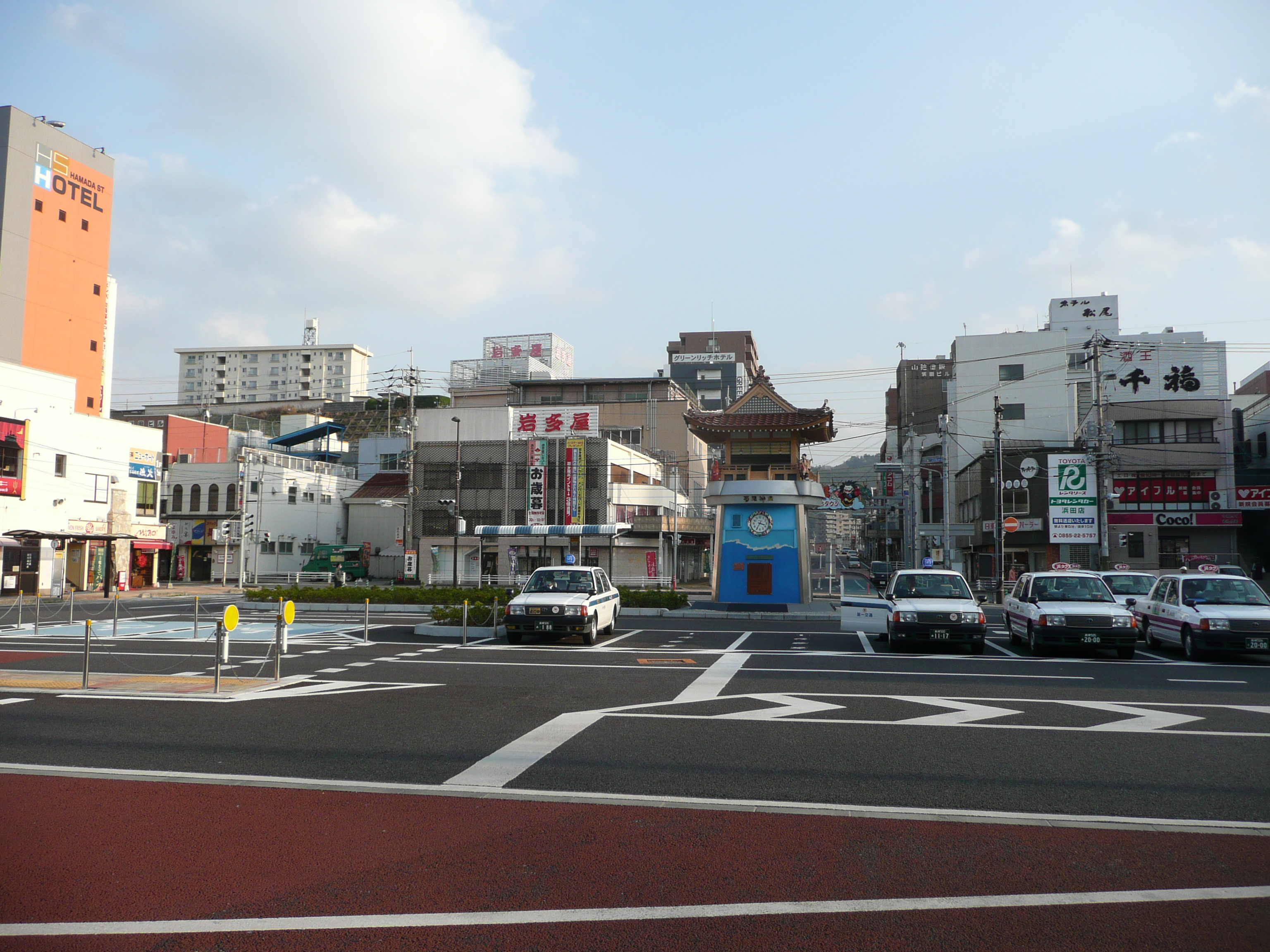 In front of Hamada Station (Shimane prefectural road 208).